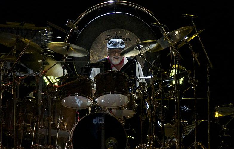 Mick Fleetwood drumming with Fleetwood Mac